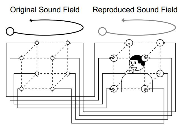 sound field reproducing